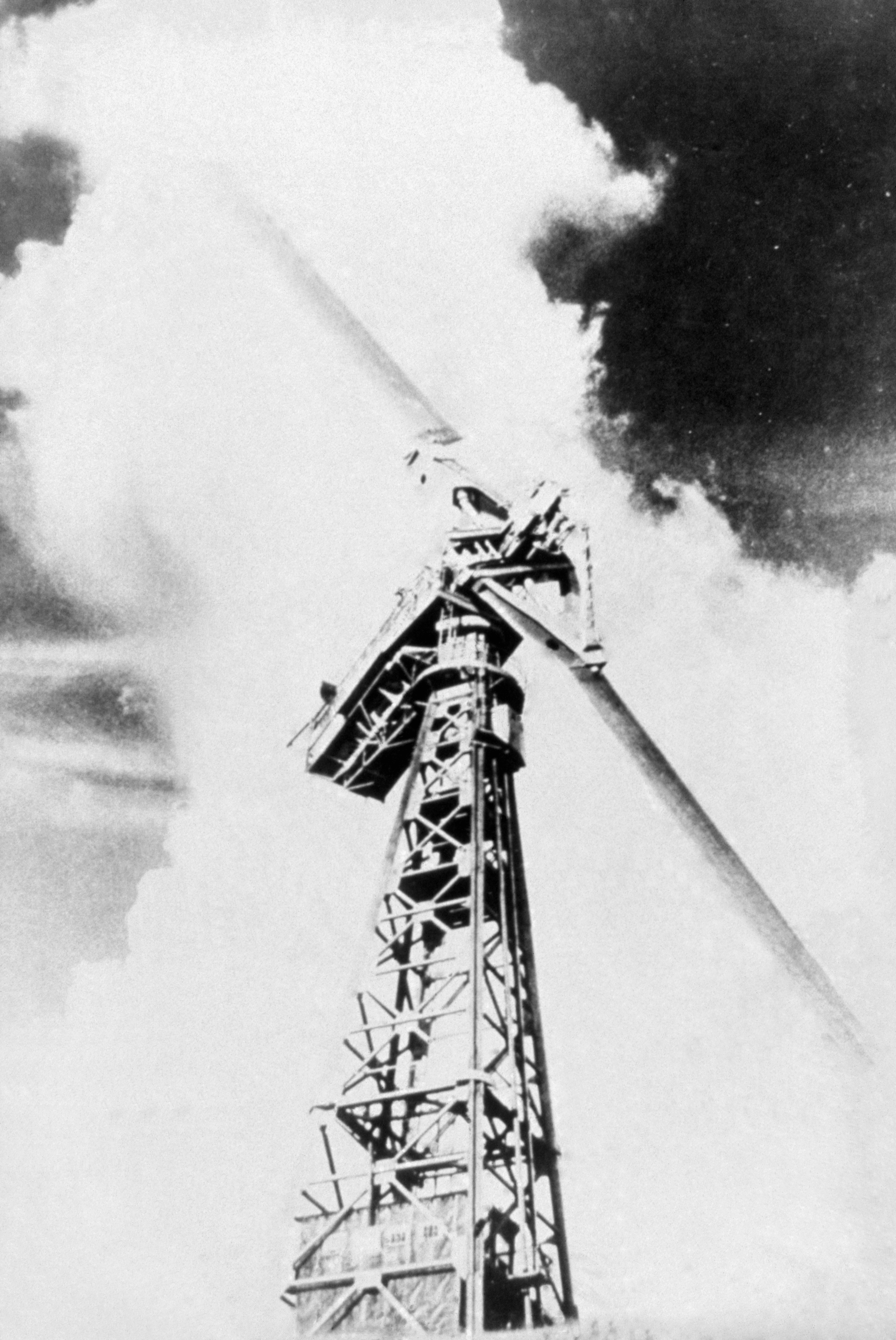 Image number 13533 Title: Smith Putnam Wind Turbine on Grandpa's Knob in Vermont, circa 1941 Caption: On a hilltop in Rutland, Vermont, "Grandpa's Knob" wind generator supplied power to the local grid for several months during World War II. The Smith- Putnam machine was rated at 1.25 megawatts in winds of about 30 miles per hour. It was removed from service in 1945. Credit: unknown Publications: 9/27/2004 Circa 1941: no credit information available, historical image Subject: wind Descriptors: first grid-connected electricity, historic, historical, utilities, windmill, wind turbine Person/Place: Grandpa's Knob in Vermont Release Level: Full/Internet